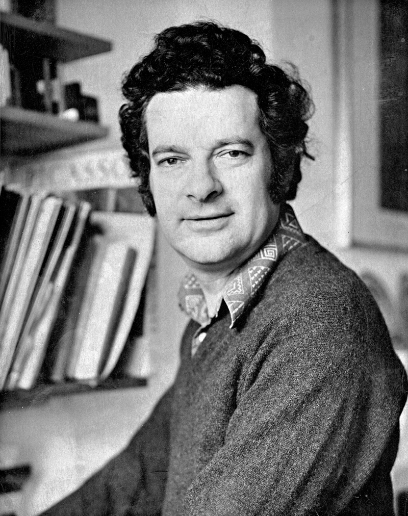 Michael Cole portrait